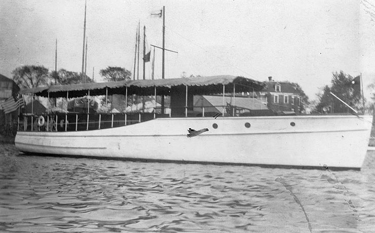 The motorboat Weepoose, before her United States Navy service as patrol vessel USS Weepoose (SP-405).